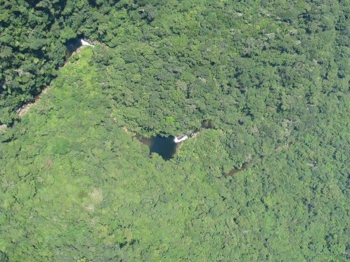 Aerial shot of the central river in Bladen Nature Reserve taken from plane donated by LightHawk NGO